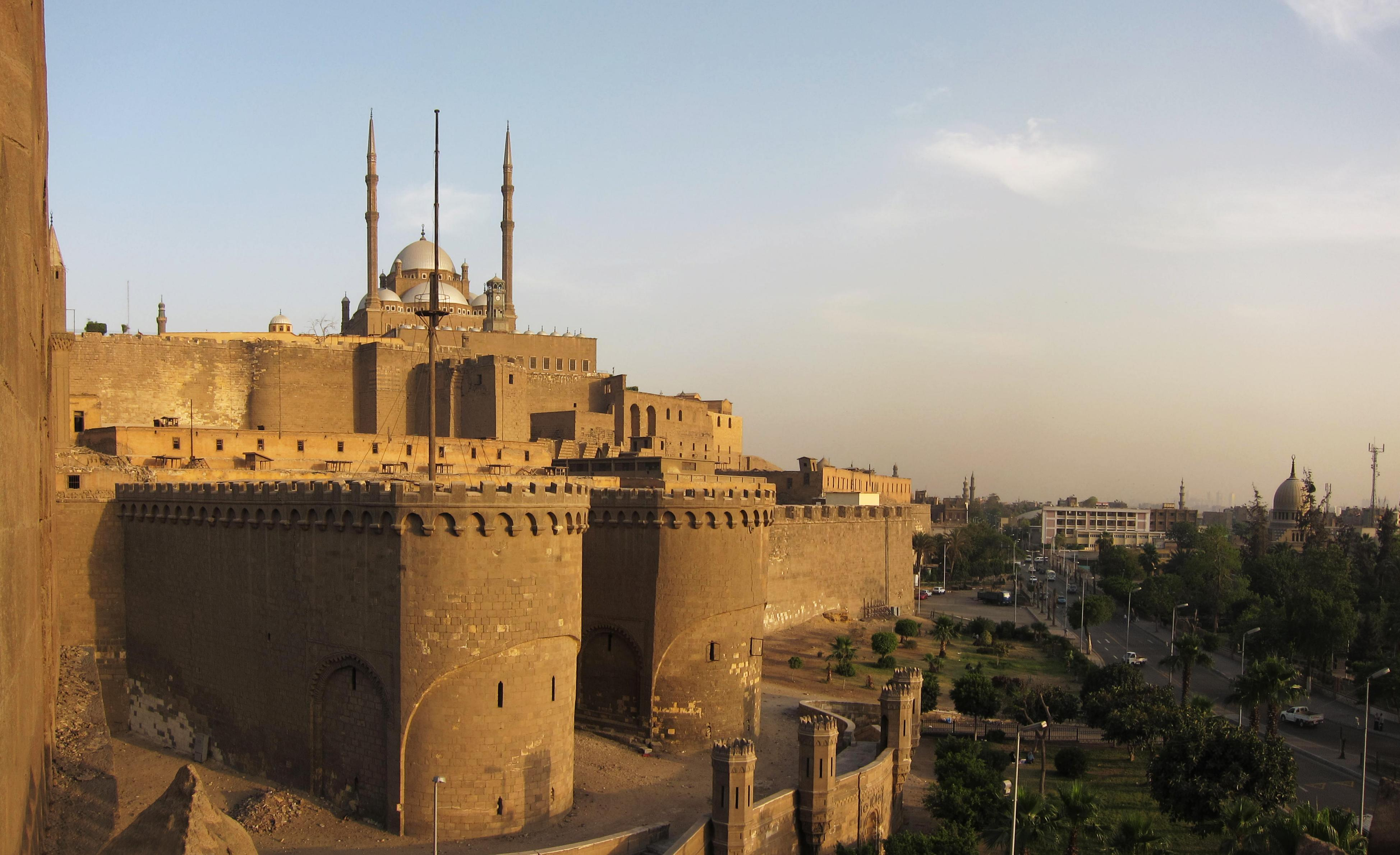 The Saladin Citadel of Cairo (Arabic: قلعة صلاح الدين Qalaʿat Salāḥ ad-Dīn) is a fortification in Cairo, Egypt. The location, part of the Muqattam hill near the center of Cairo, was once famous for its fresh breeze and grand views of the city, and was fortified by the Ayyubid ruler Salah al-Din (Saladin) between 1176 and 1183 AD, to protect it from the Crusaders[1]. Source.